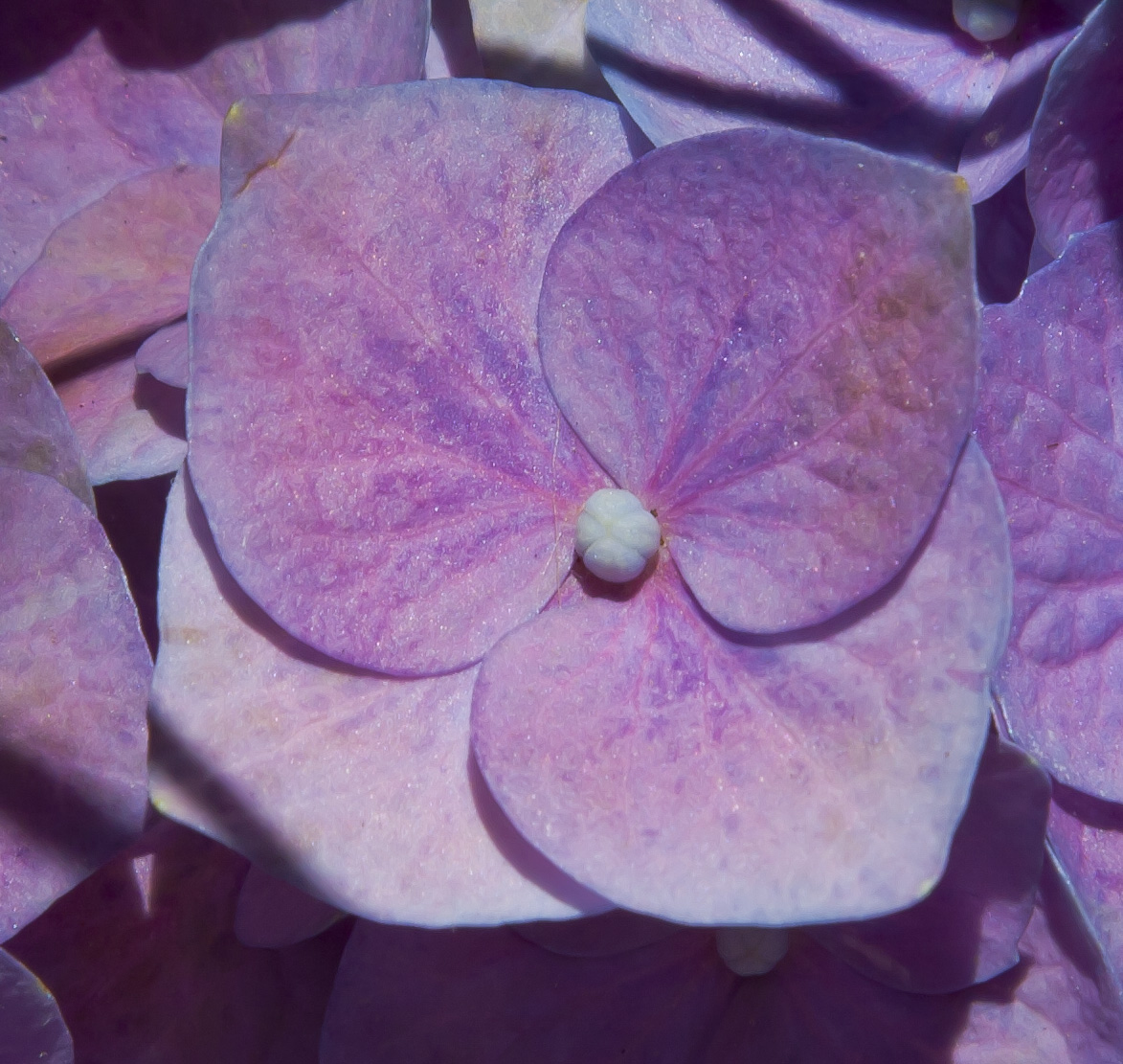 Hortensia (Hydrangea macrophylla), Calatayud, Spain